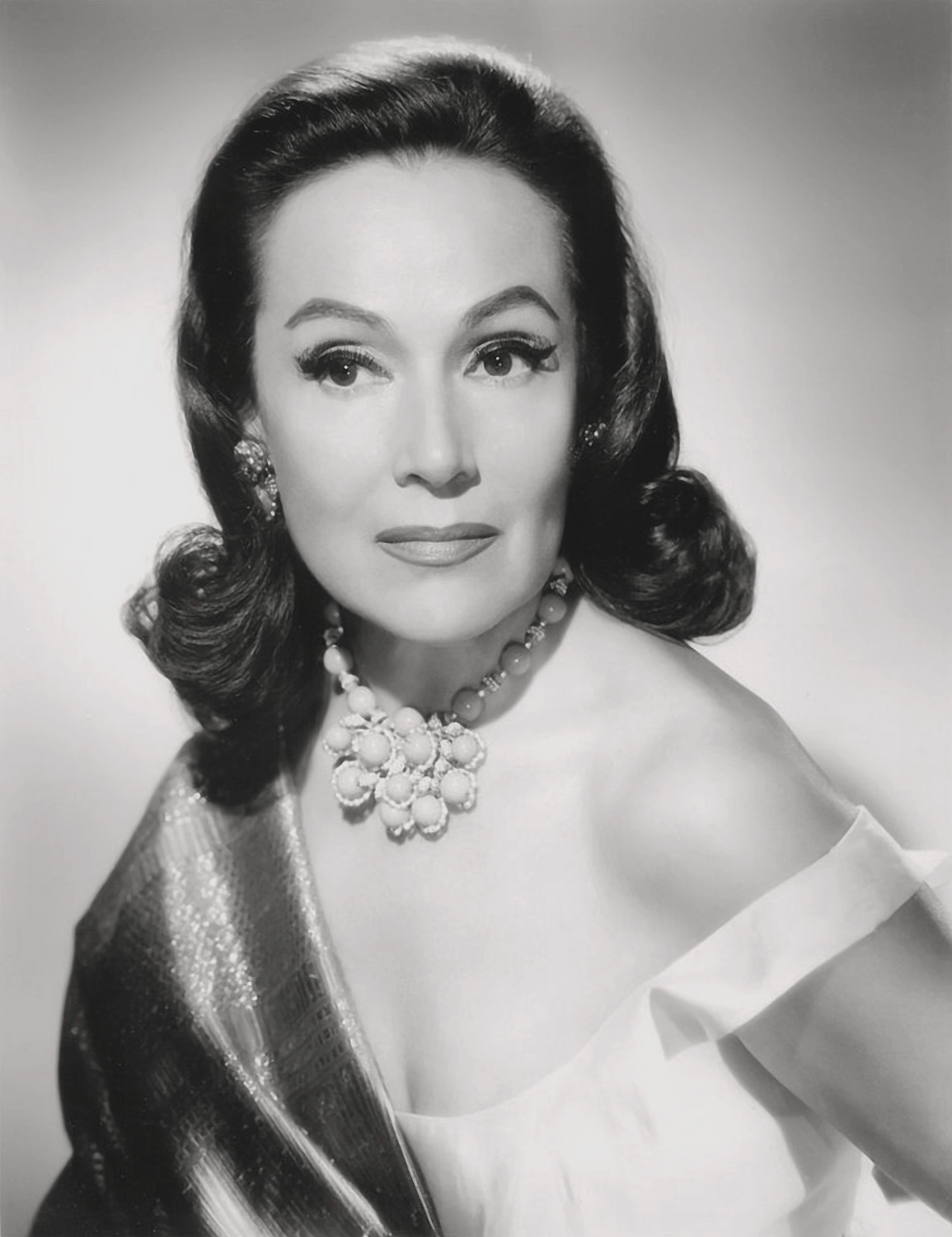 A publicity photo of Dolores del Río taken in 1961.